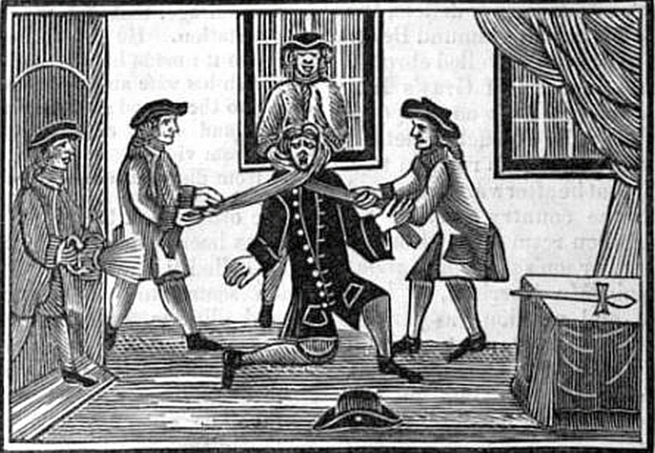 Killing of Sir Edmund Berry Godfrey